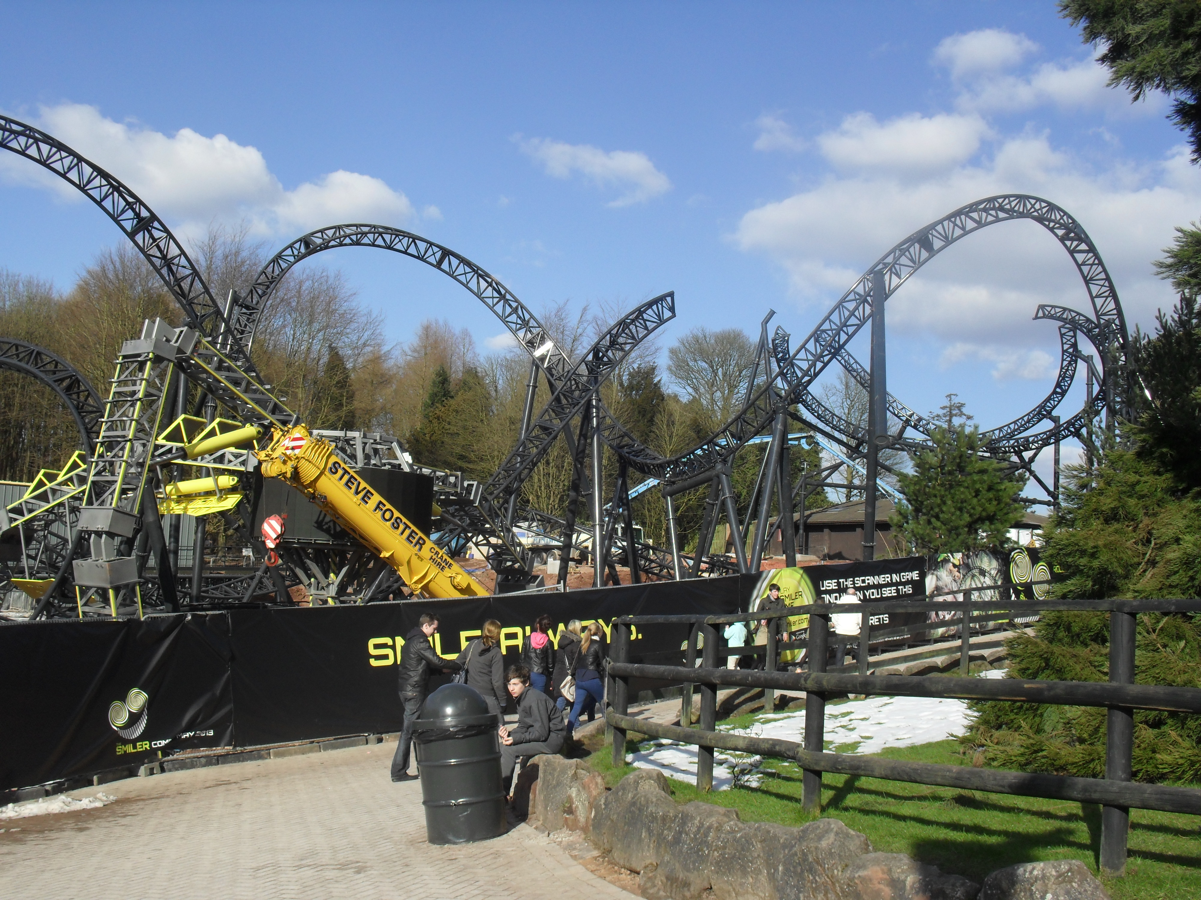 The Smiler, one month before the opening (Alton Towers, Staffordshire, England, United Kingdom)